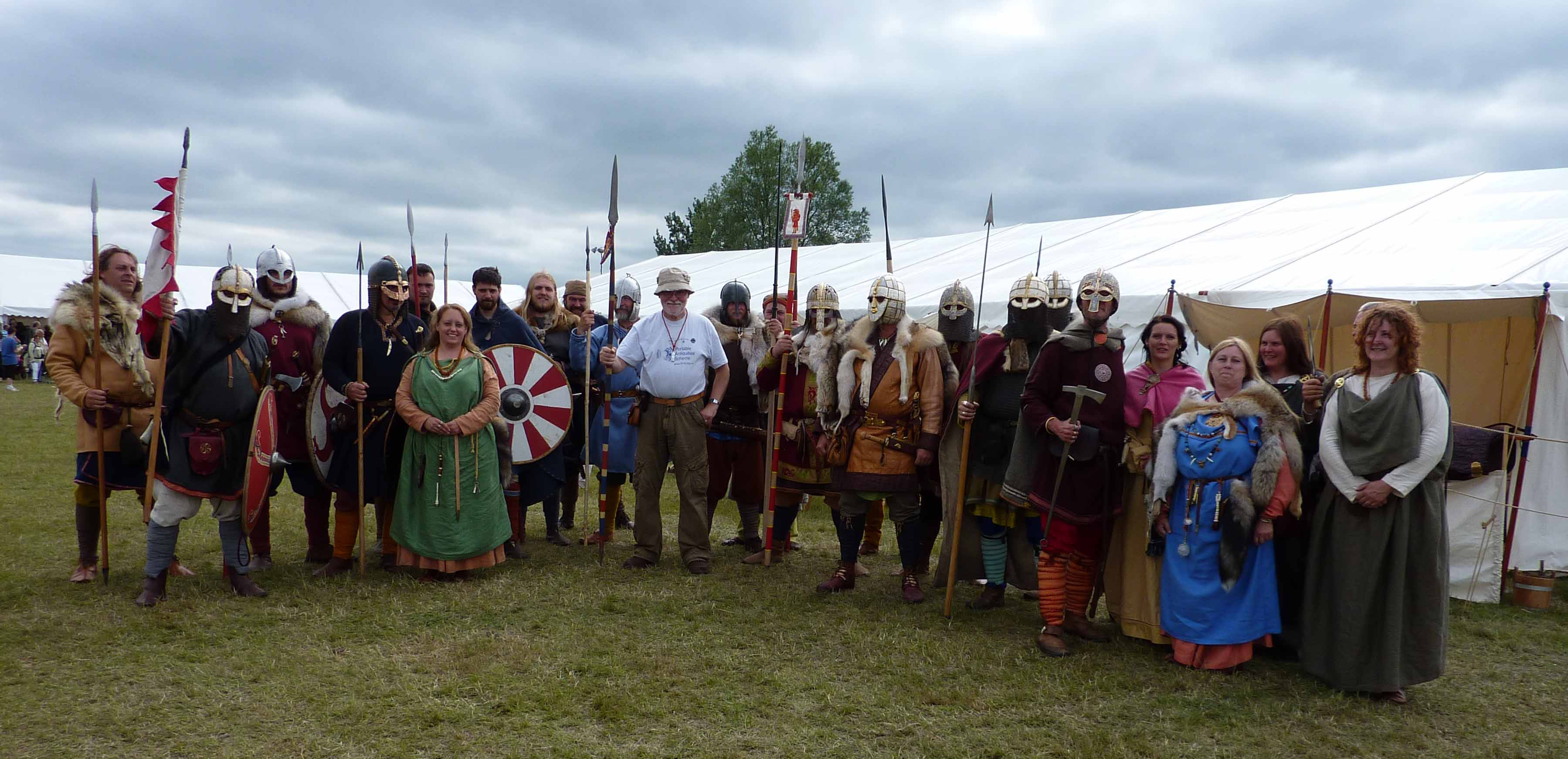 Part of The Festival of British Archaeology at Kelmarsh Hall in 2010. Caption said ...Kevin where he always wanted to be, with the Anglo-Saxons